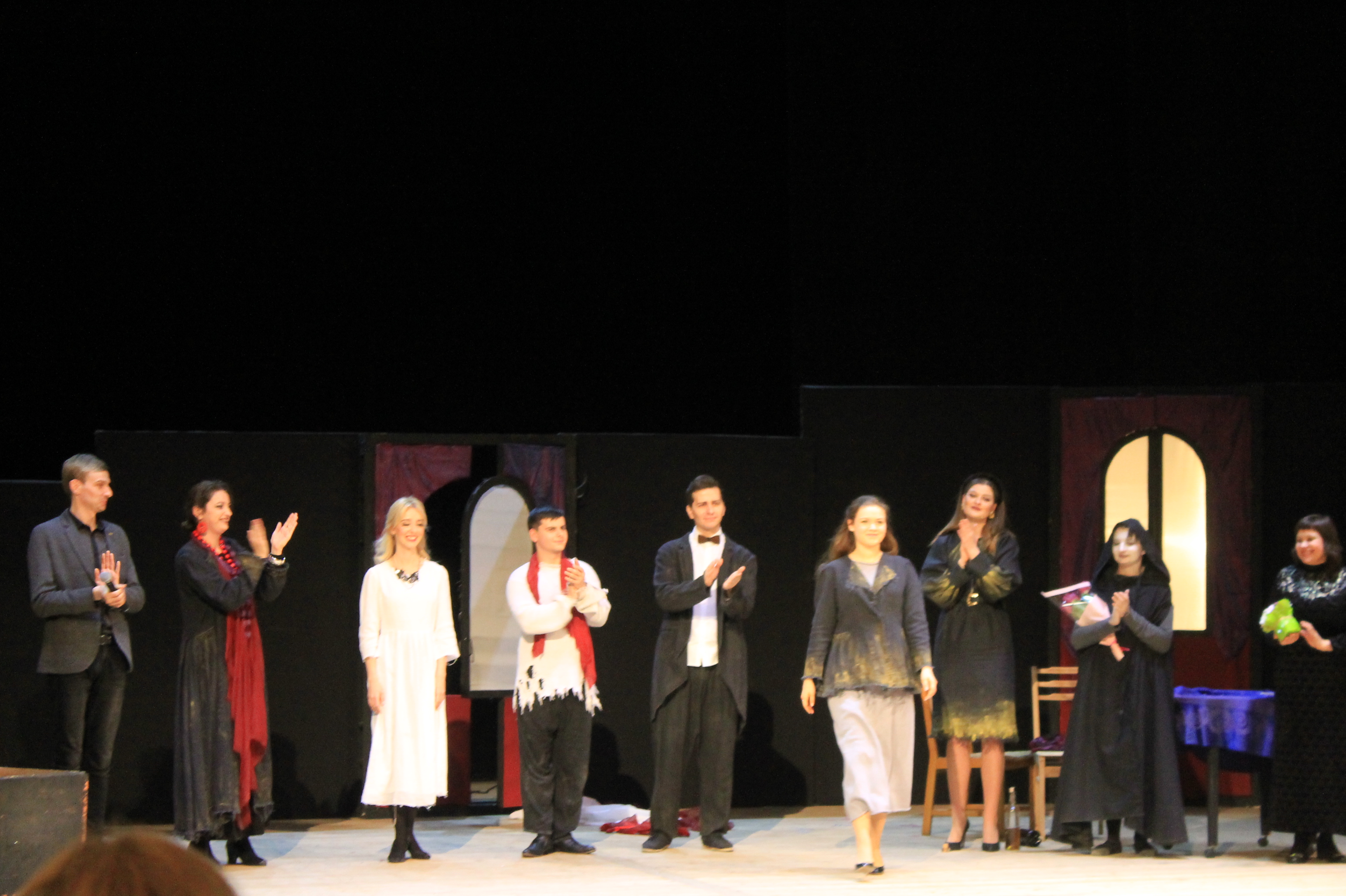 Gian Carlo Menotti’s "Medium" staged in Tchaikovsky Opera studio in Kyiv, February,12 2020